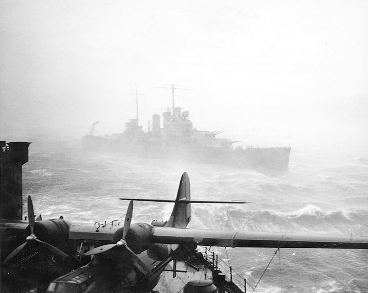 The U.S. Navy heavy cruiser USS Wichita (CA-45) rides out a winter storm off Iceland in mid-January 1942. Note the Consolidated PBY Catalina patrol plane on the deck of the seaplane tender from which the photograph was taken. The ship in the foreground may be USS Albemarle (AV-5).